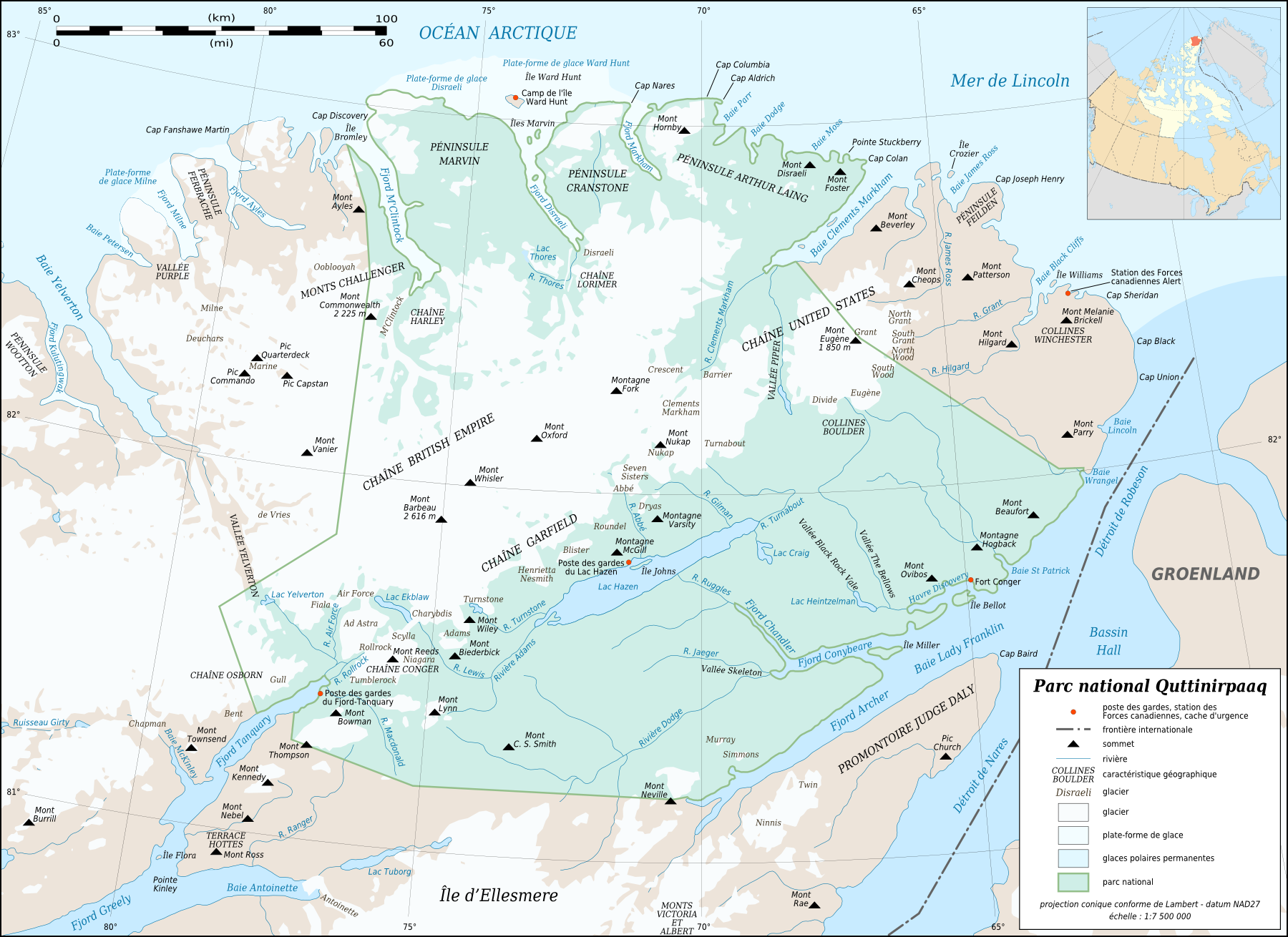 Map of Quttinirpaaq National Park, Nunavut, Canada. Note: Consider using this PNG version which gives a better rendering of the labels on display than the SVG version.